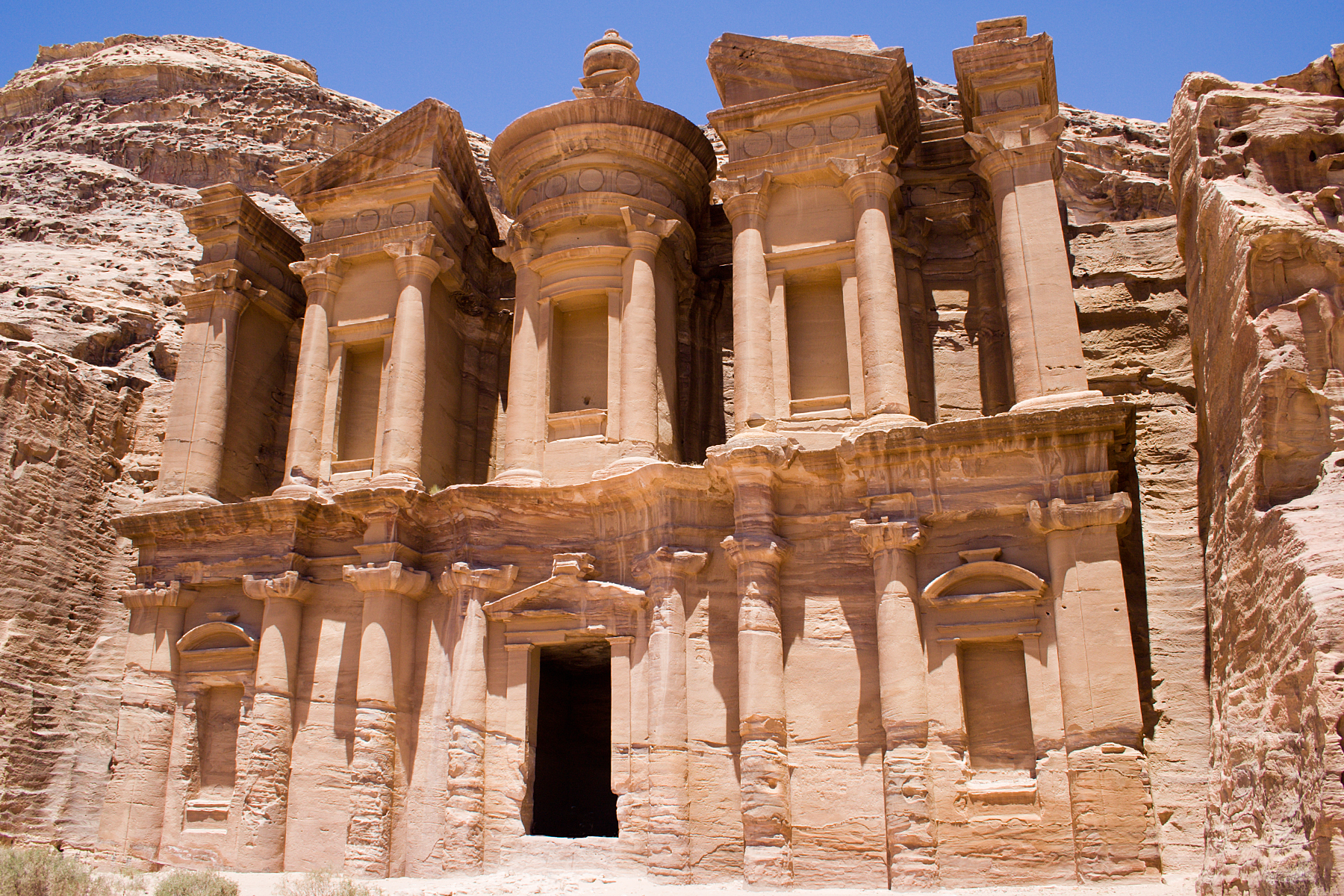 Petra's Monastary (al-Deir).